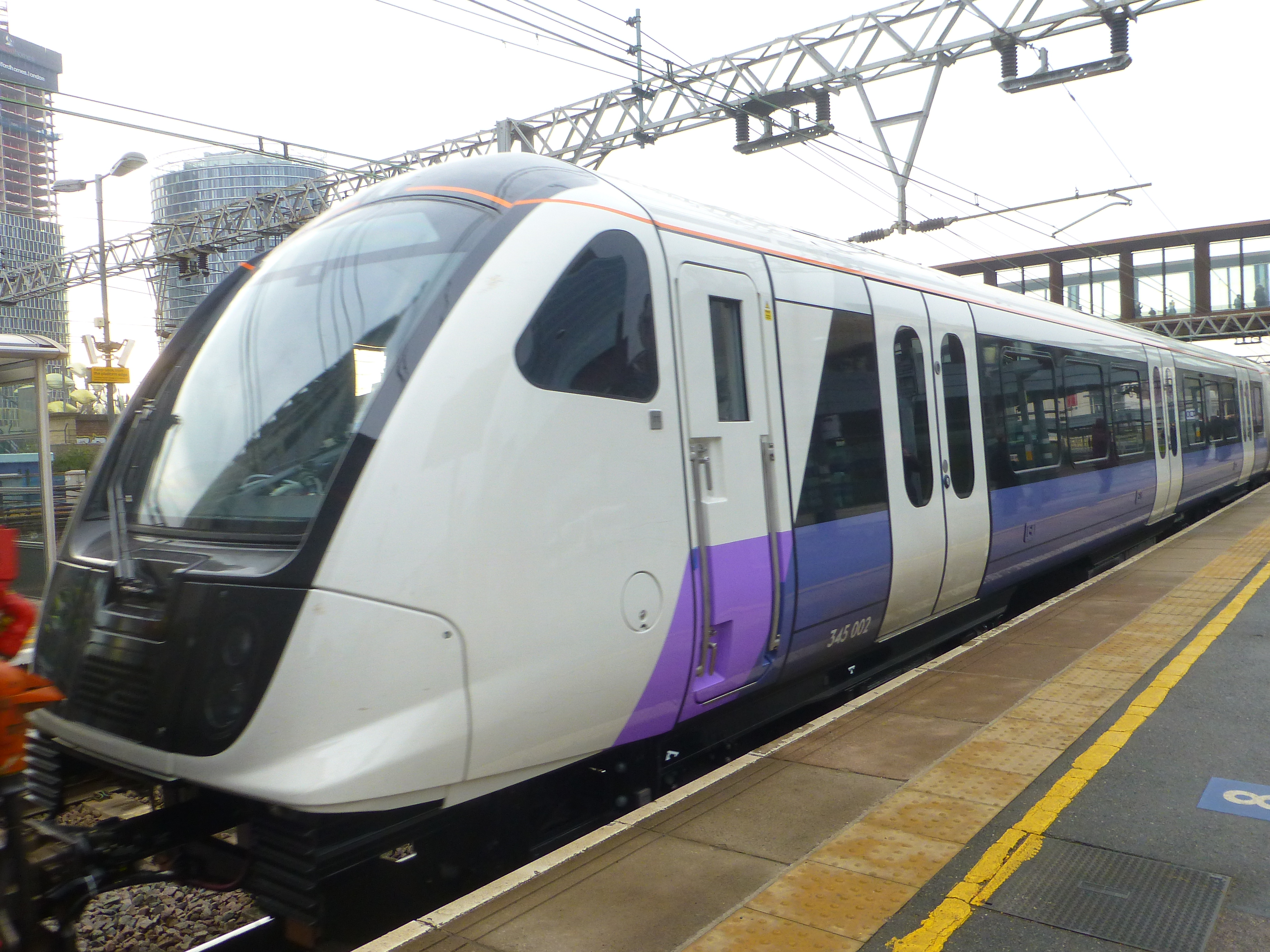 The first Class 345 Crossrail Line 1 (Elizabeth) train passes by platform 10a at Stratford station London. Hauled by diesel locomotive 67 013 and with translator carriages at each end this journey was taking the brand new train to Ilford depot.